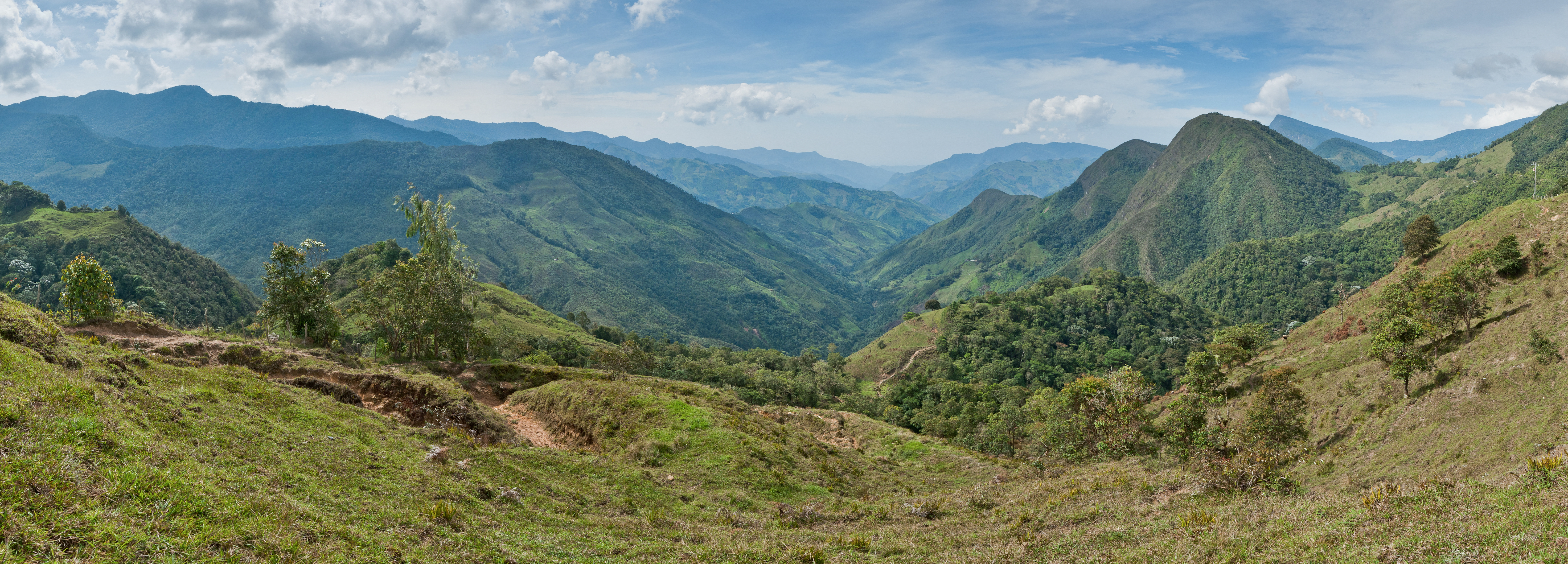 Panoramic view of the venezuelan Andes, on the road from Canaguá to Guaimaral towns.